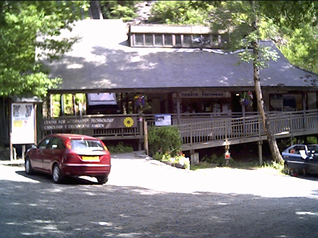 Centre for Alternative Technology. Centre for Alternative Technology, Machynlleth, Powys, SY20 9AZ, UK